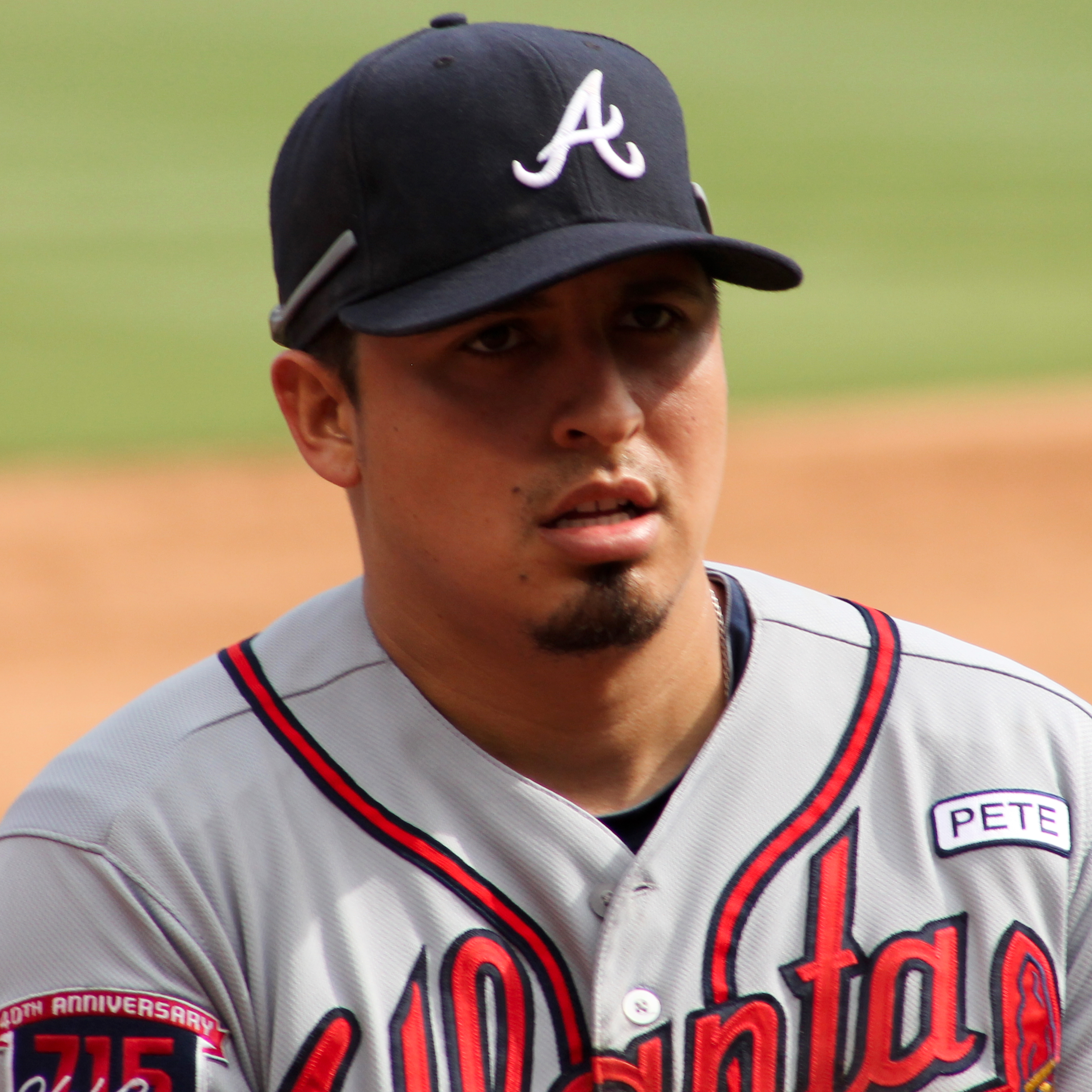 Professional baseball player Ramiro Peña plays in a September 2014 game in Arlington, Texas.